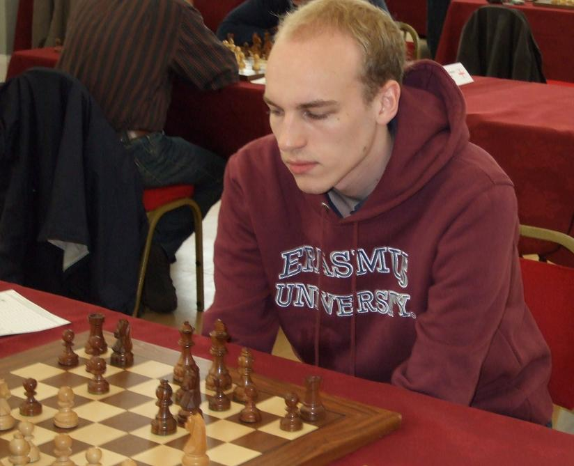 GM Jan Smeets - Round 6 of 4th EU Individual Open Ch., Liverpool World Museum, William Brown Street